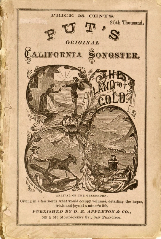 cover of Put's Original California Songster songbook, published 1855, by John A. Stone (D.E. Appleton, San Francisco)